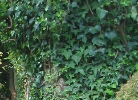 Genus Hedera Familia Araliaceae Description: this is an own picture; it is Hedera; visit of Alhambra, Granada, SpainPurpose : al-andalus series of articles, in Wikipédia (FR). Source: Utilisateur:Holycharly Licence